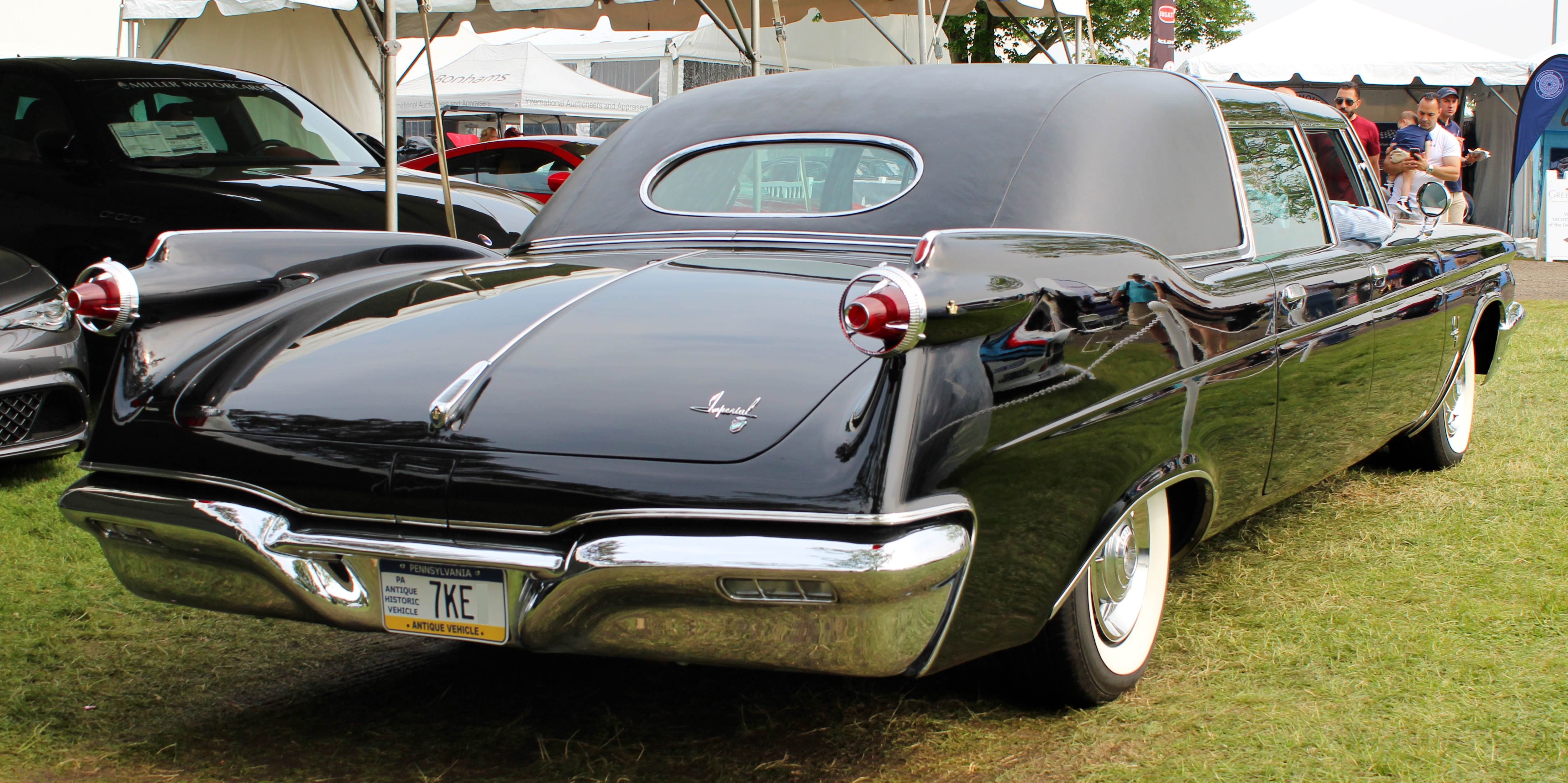 A 1960 Imperial Crown Limousine by Ghia photographed during the 2019 Greenwich Concours d'Elégance, Connecticut, USA. One of 17 built in 1960